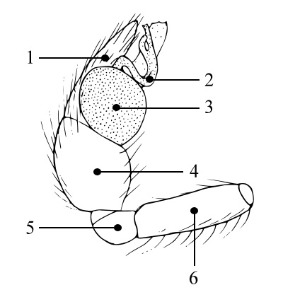 Diagnostic drawings of the spider species Anisaedus levii. Left male palp; prolateral view. Details: 1 – cymbium, 2 – embolus, 3 – bulbus, 4 – tibia, 5 – patella, 6 – femur.